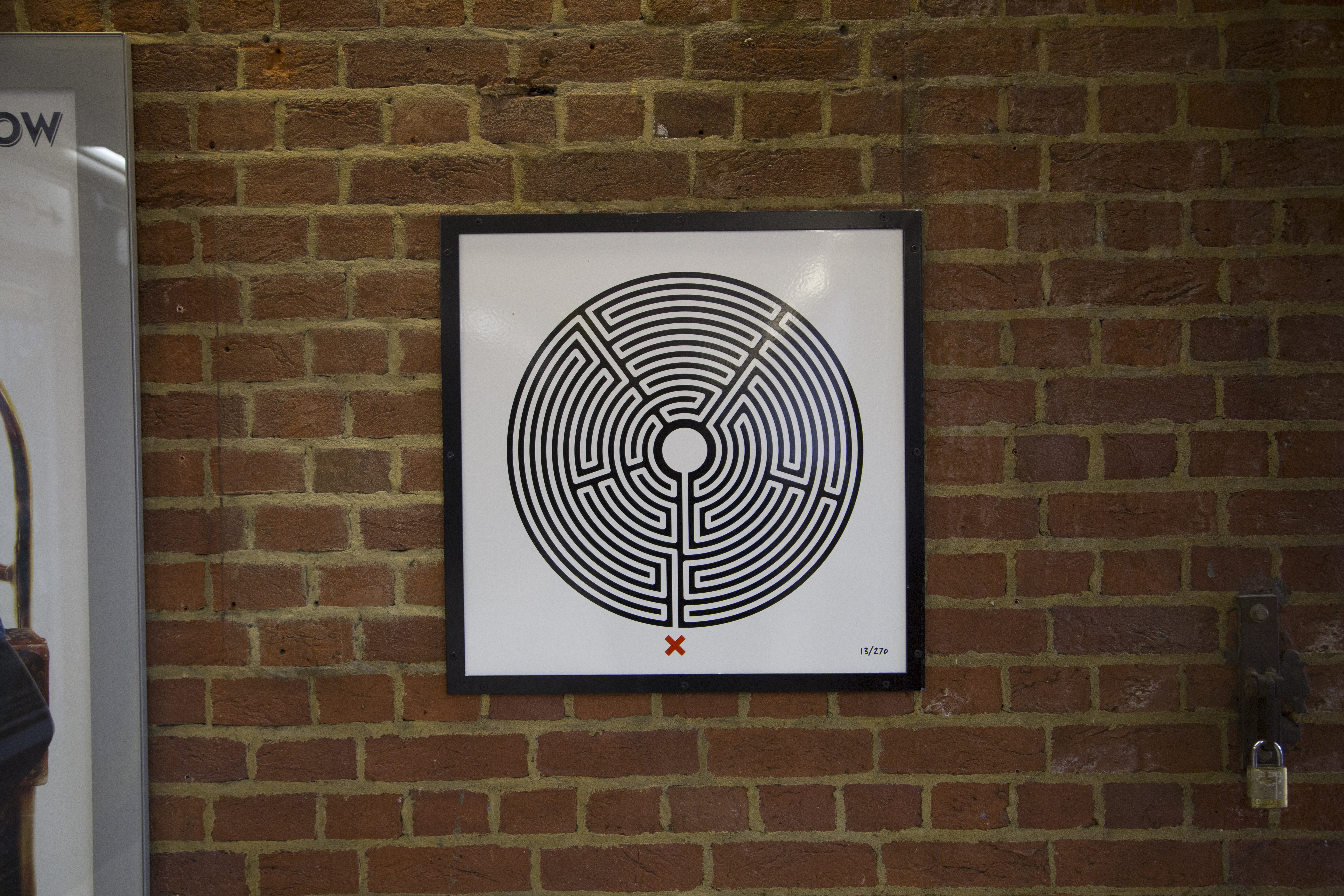 Mark Wallinger's unique Labyrinth installation at Rayners Lane station, installed as part of a network-wide art project marking 150 years of the London Underground. Part of the Square family.